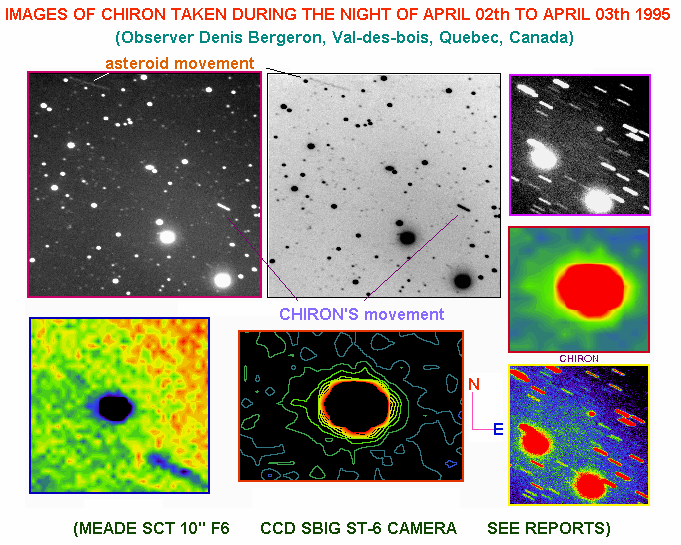 2060 Chiron April 02, 1995 photo